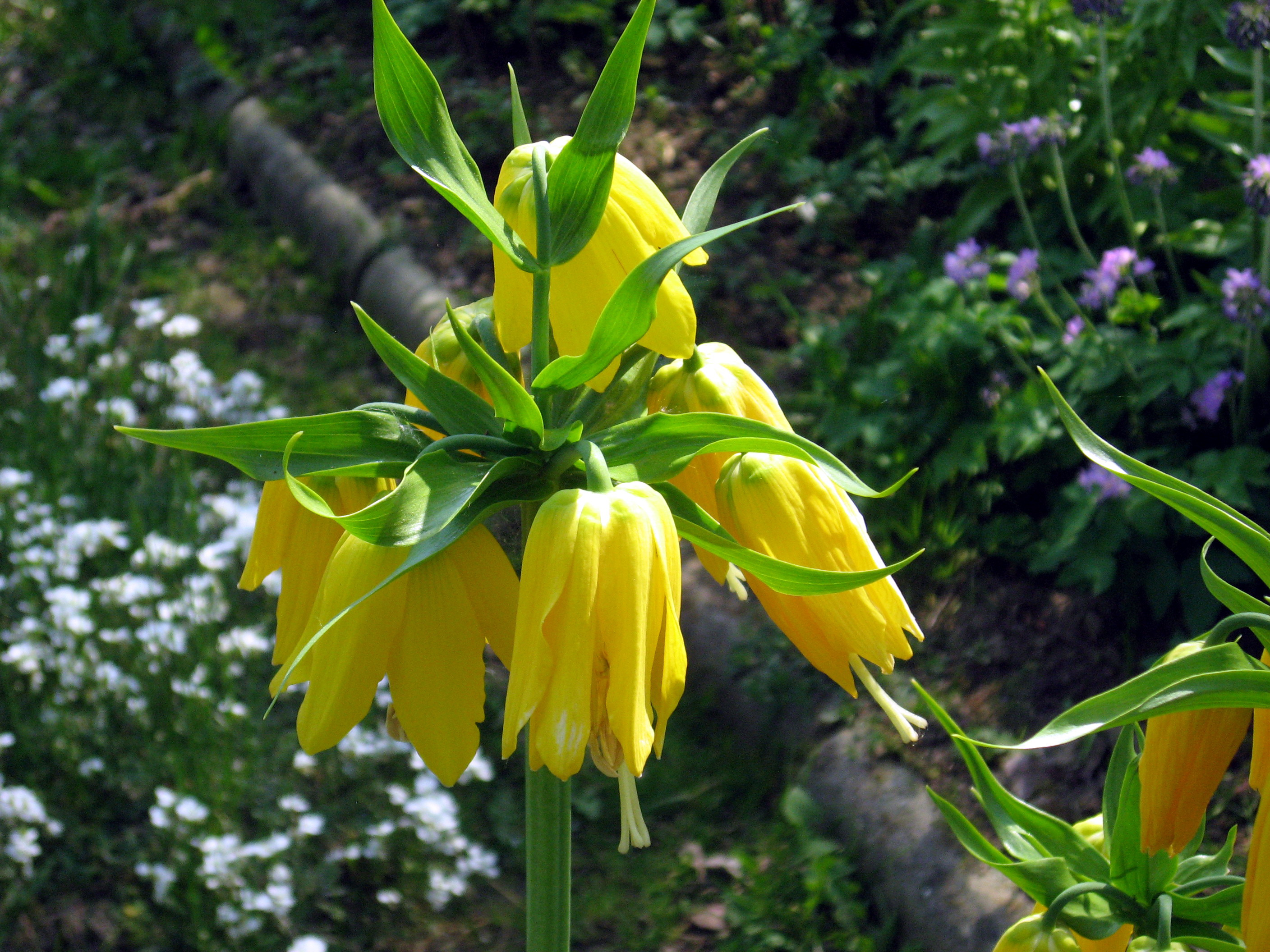 Yellow Crown Imperials (Fritillaria imperialis)